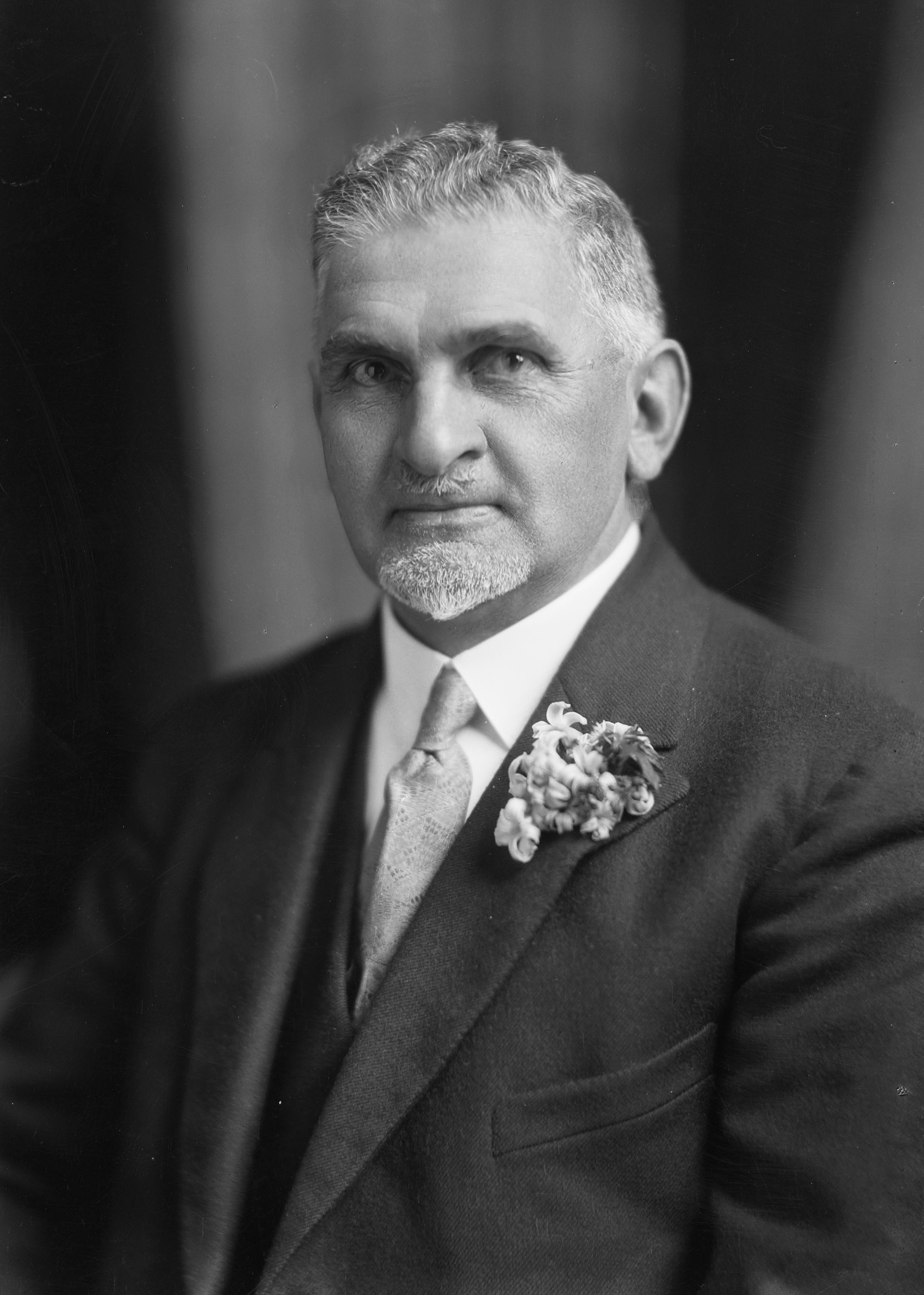 James Alfred Nash, 11 October 1928, photographed by S P Andrew Ltd.